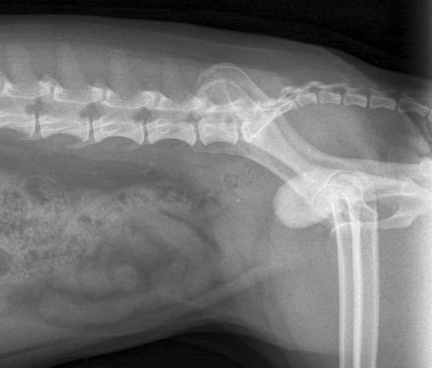 A large bladder stone (urolith) in a small dog, as shown in an x-ray